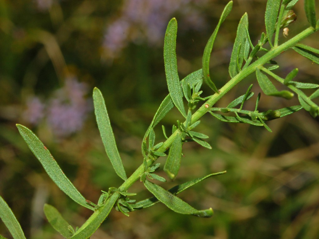 Aster sedifolius - Genova, Italy